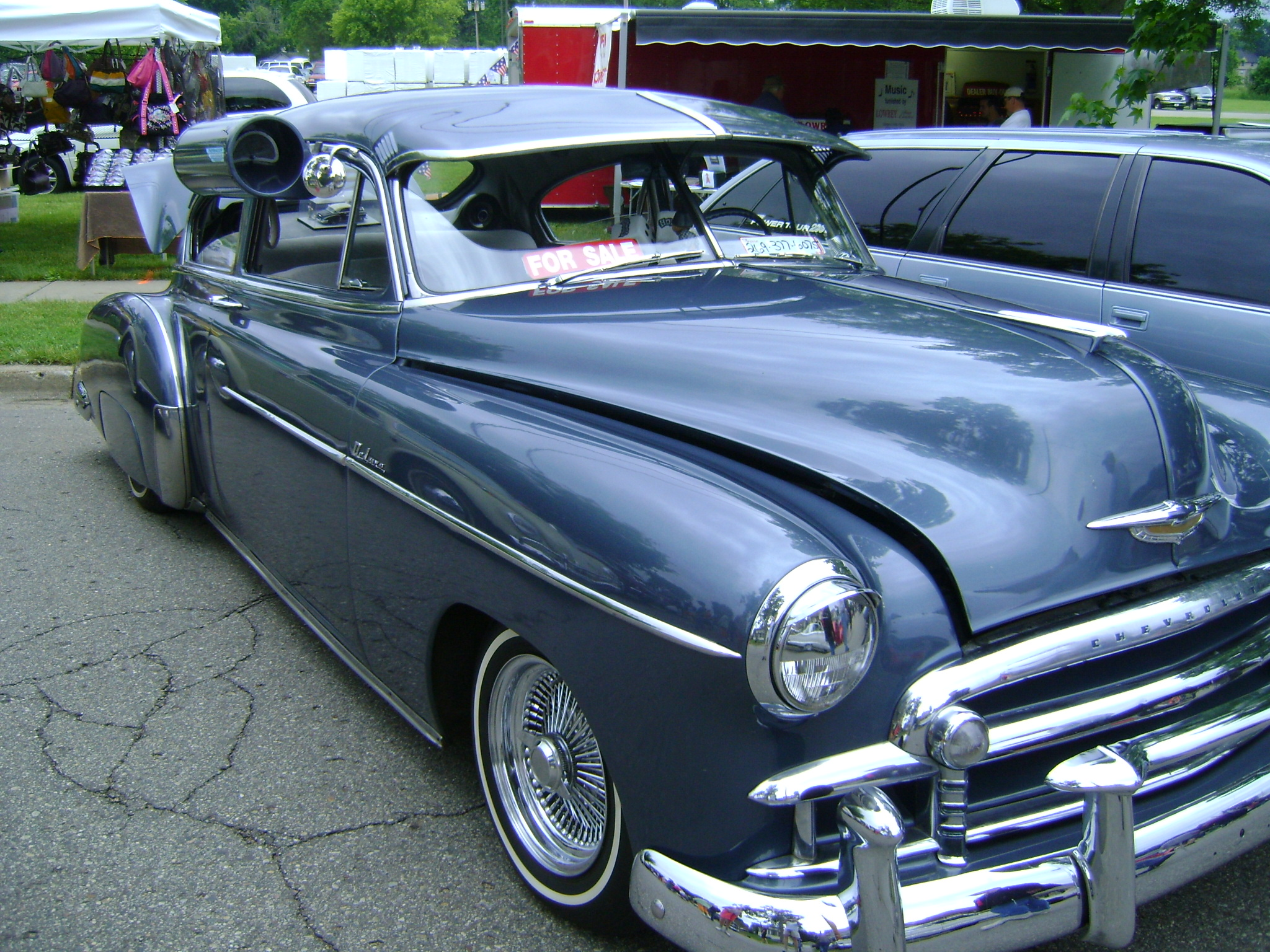 Car Cooler on 1950 Chevy